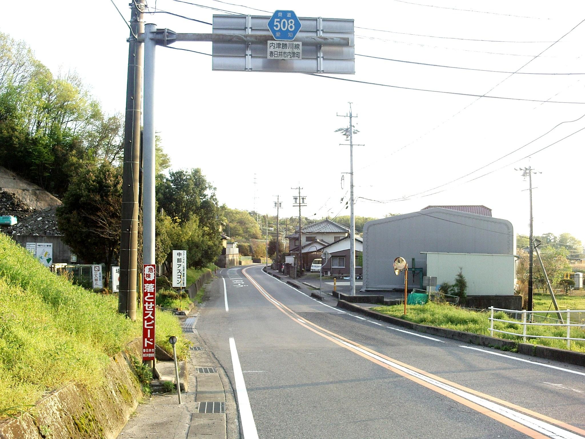 The Aichi Prefectural Road Route 508 in Utsutsucho, Kasugai City